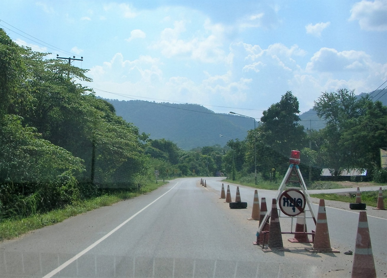 Phu Nam Ron road control post before the border